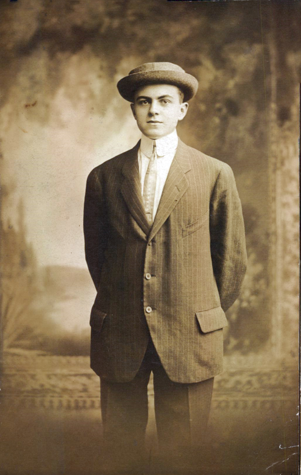 A postcard photo of my paternal grandfather taken in 1912 at the I. Issoff Photo Studio, 773 Broad St., Newark, New Jersey.